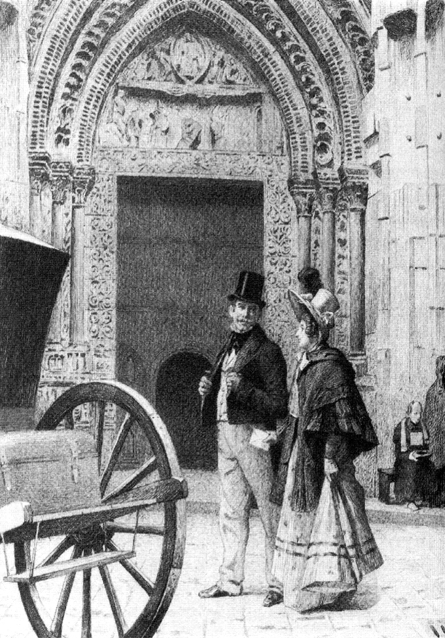 Illustration of Madame Bovary by Gustave Flaubert (1821-1880): Emma Bovary and Léon